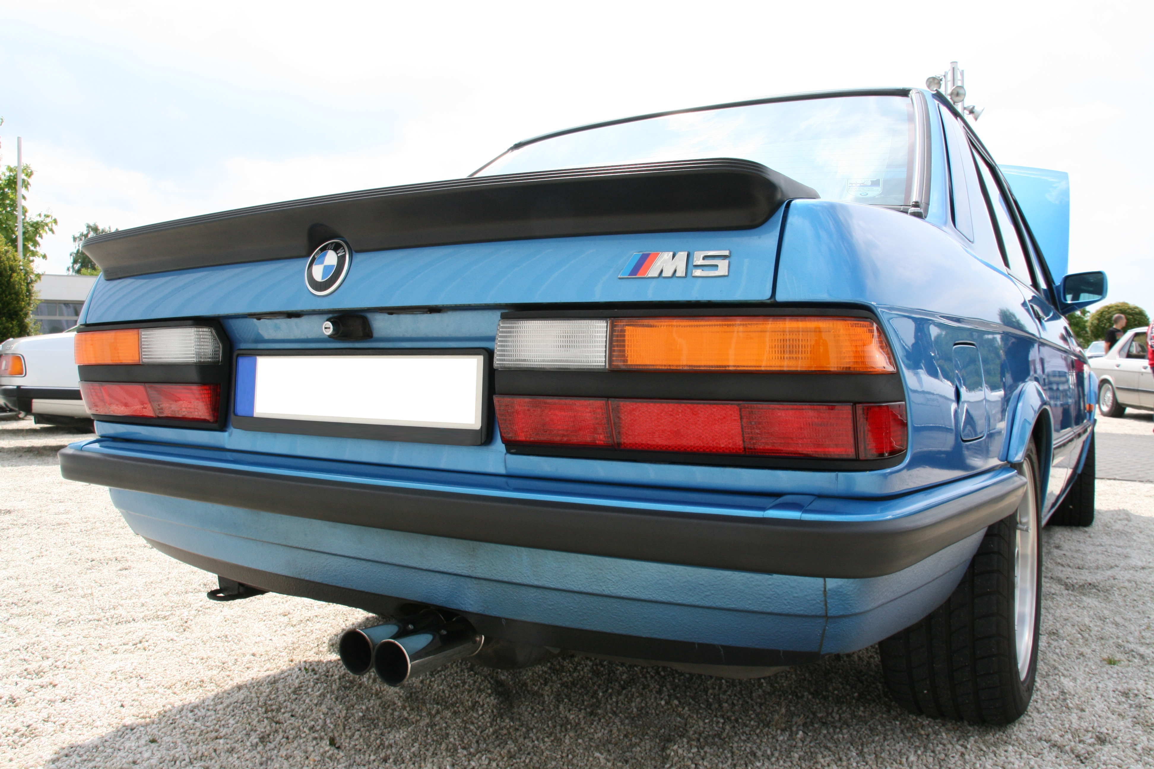 BMW M5 E28